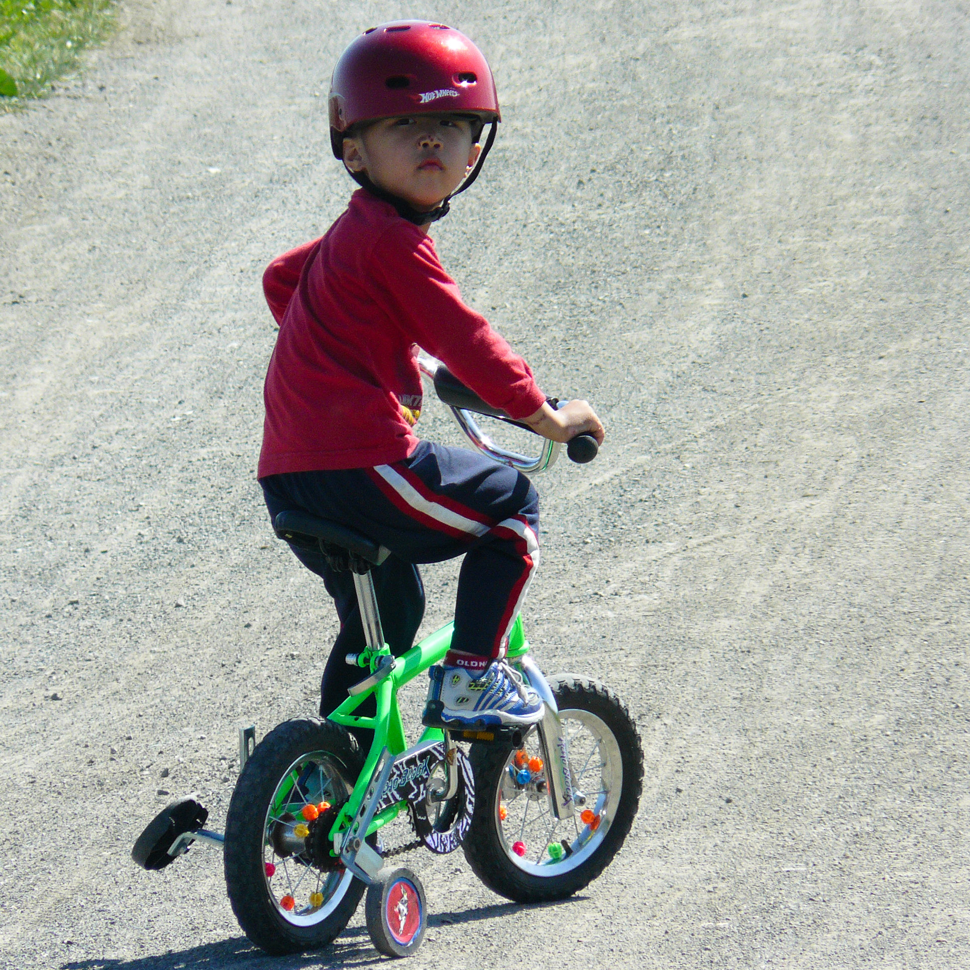 A boy riding a bicycle with training wheels